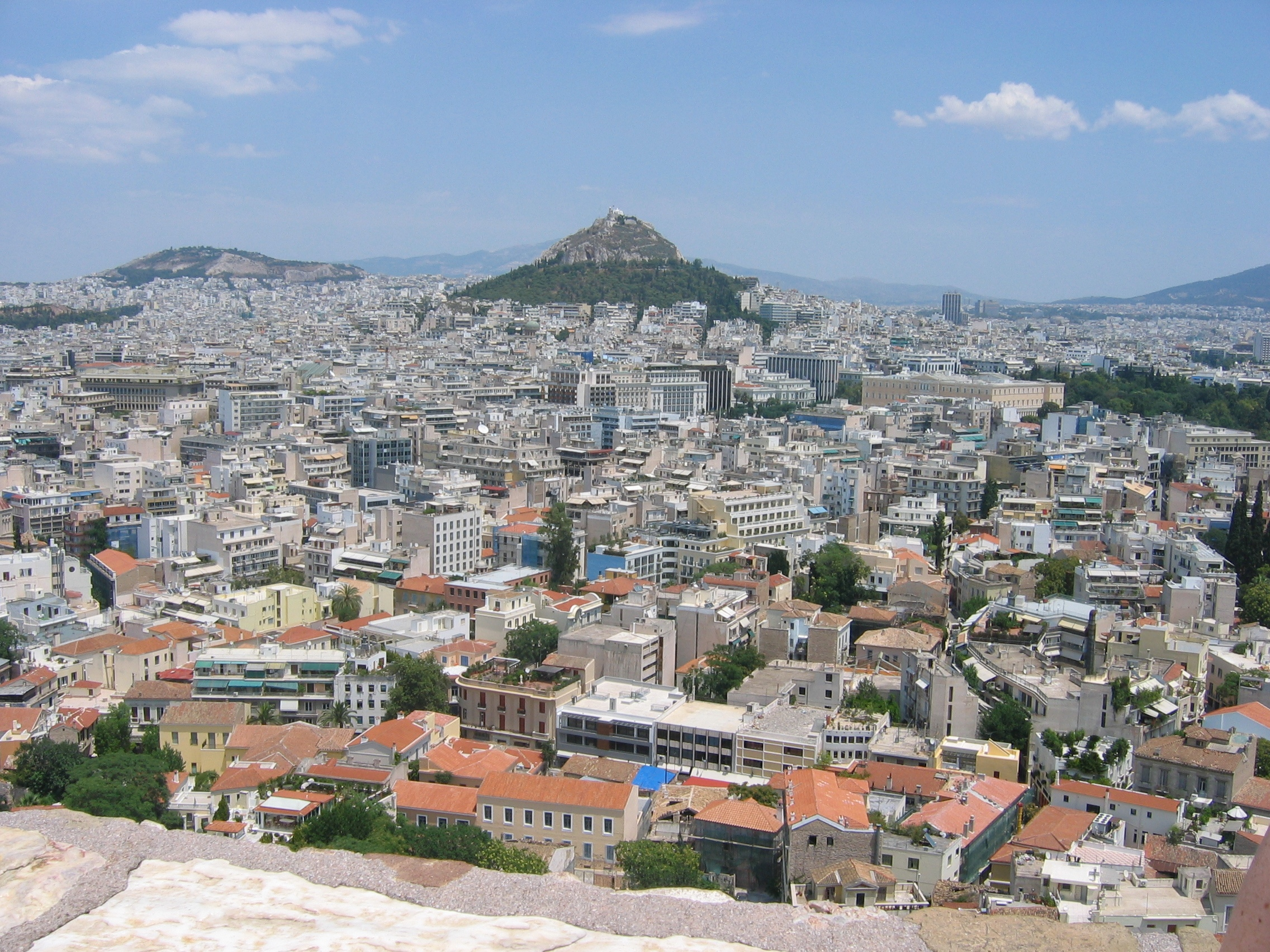 Athens from the Acropolis with the Lycabettus hill at the background.